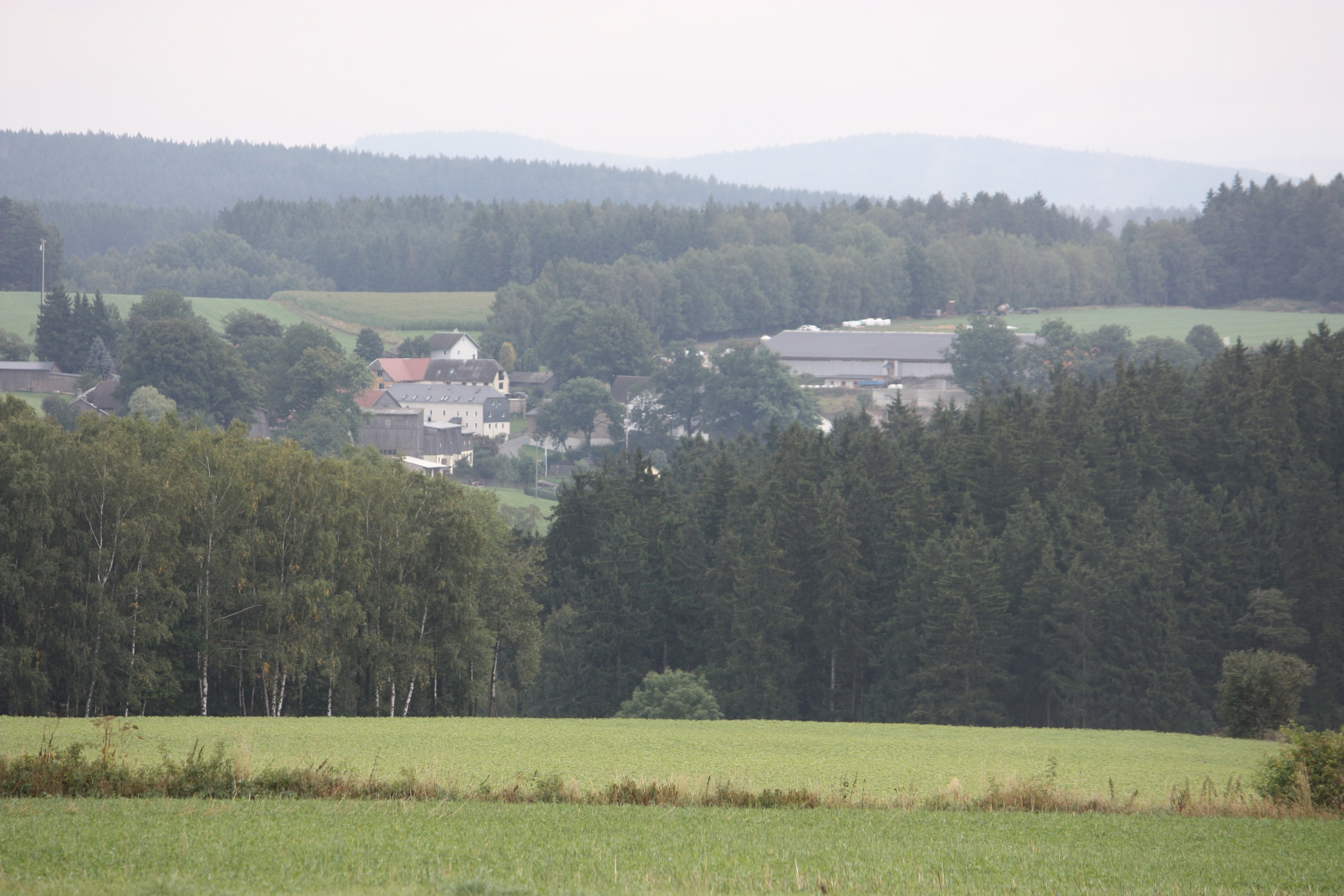 Wunsiedel, view from the Katharinenberg to Wintersreuth